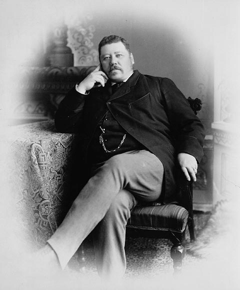 John Norquay (1841 - 1889), Premier of Manitoba, ca. 1878 - 1887 / Winnipeg, MB